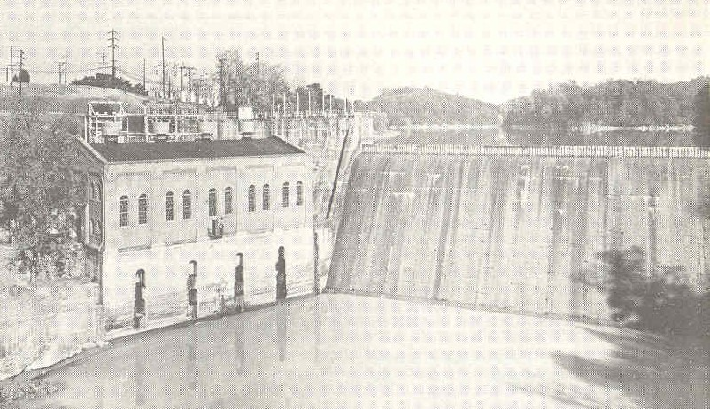 Nolichucky Dam on the Nolichucky River in Greene County, Tennessee, USA. Note: the pixel-like pattern in the whiter parts of this image is due to the scan quality, and is not present in the original photograph.